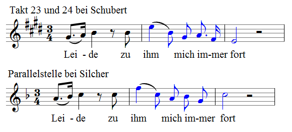 Bars 23 and 24 from Franz Schuberts song "Der Lindenbaum" from his songcycle "Winterreise" and the analog part in Silchers choir version